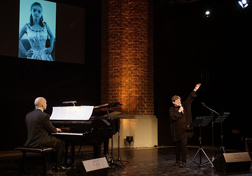 Katharina Thalbach at her performance at the Kurt Weill Fest.